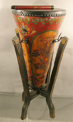 The bangu is a large Chinese Drum that produces high sounds when beaten with bamboo sticks